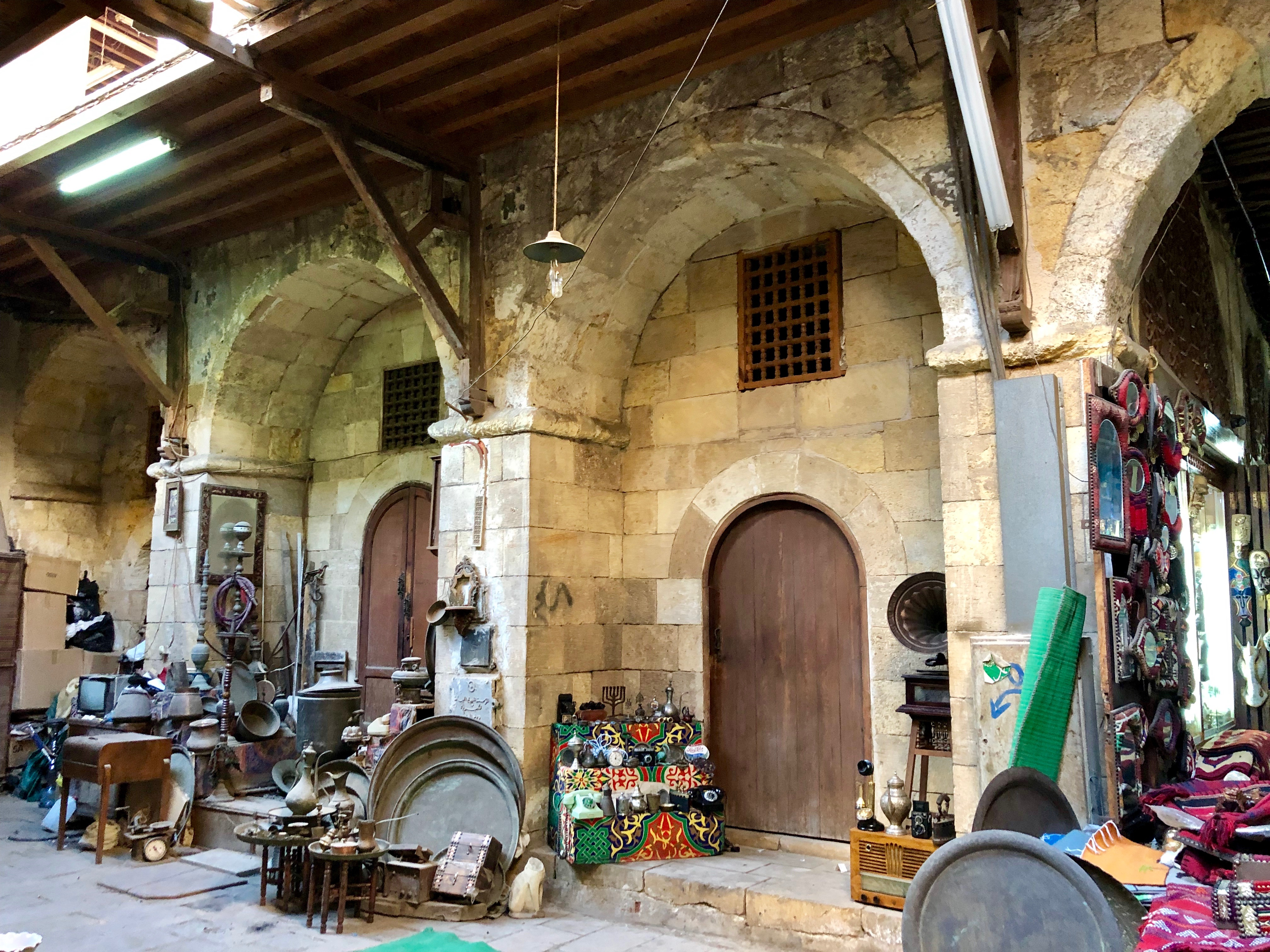 Cairo (al-Qahira), capital of Egypt